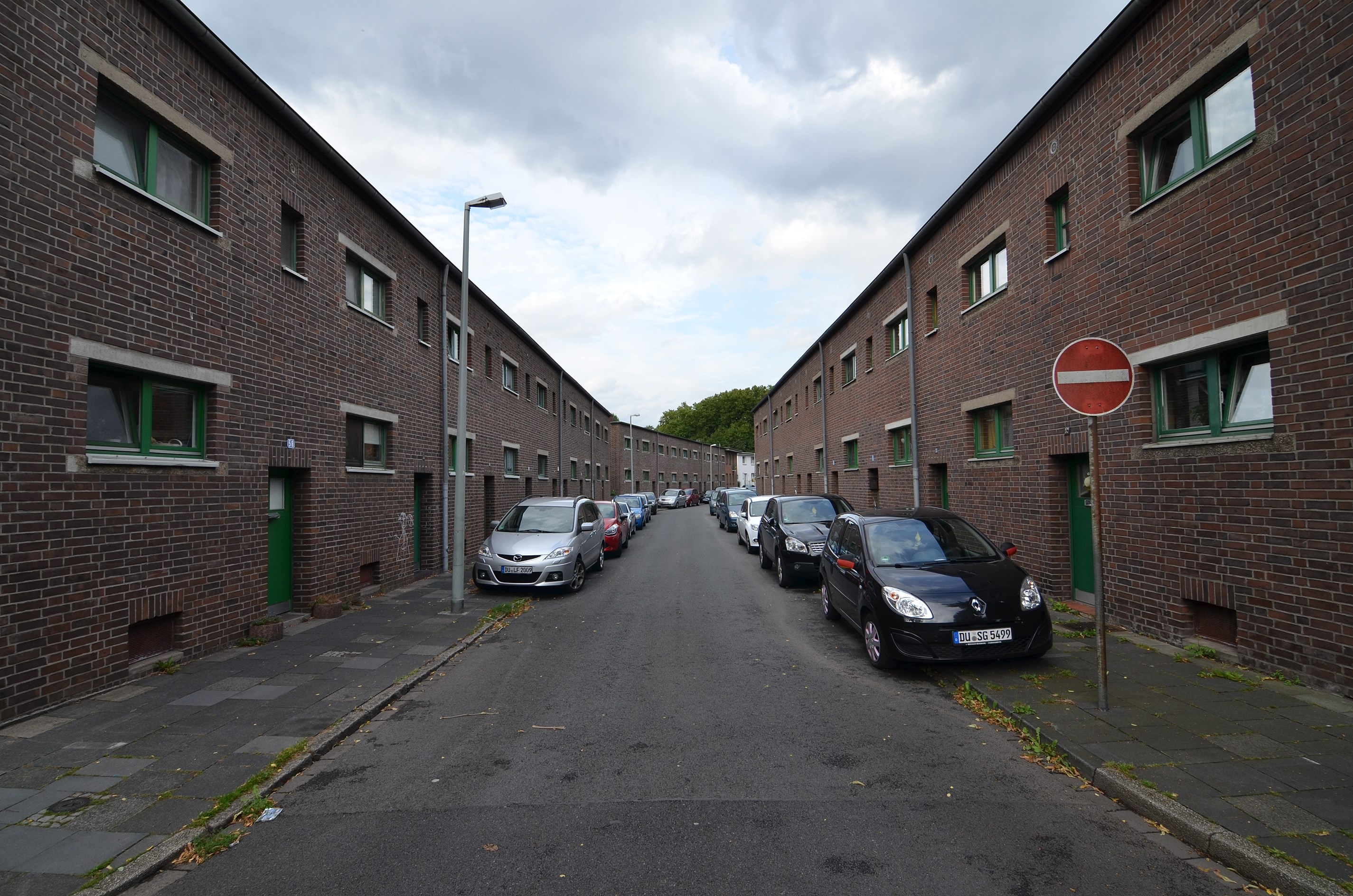 Duisburg (North Rhine-Westphalia, Germany) – borough Meiderich/Beeck, district Meiderich – Ratingsee Colony This image shows a heritage building in Germany, located in the North Rhine-Westphalian city Duisburg (no. 475). This photograph was taken with a Nikon D7000